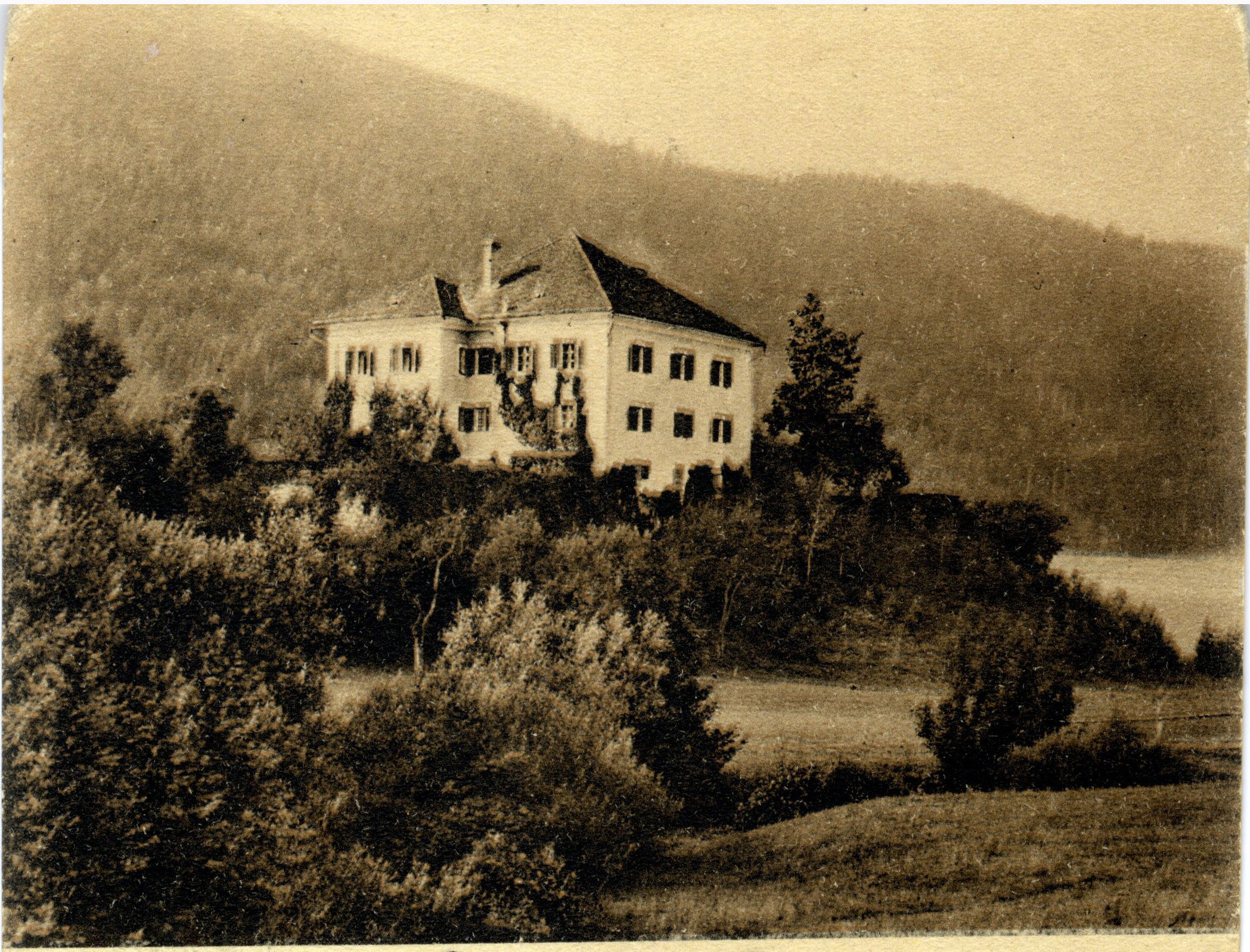 Reproduction of a photograph of the Belnek (Wildenegg) manor house near Drtija village, municipality of Moravče, Slovenia. The photograph was printed on a post card posted in 1909